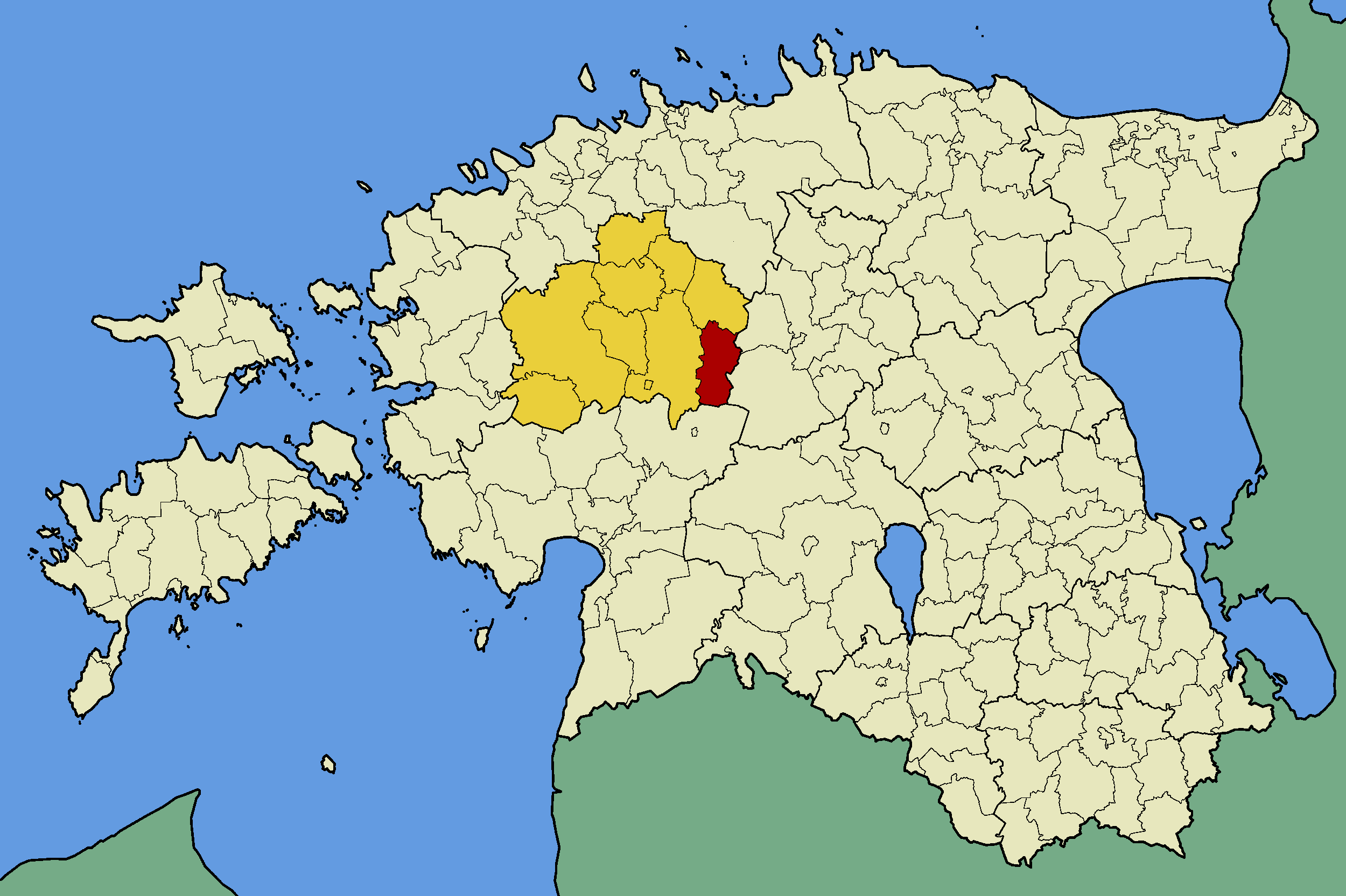 Map of Estonia with borders of municipalities (parishes). Rapla county and Käru municipality emphasized.